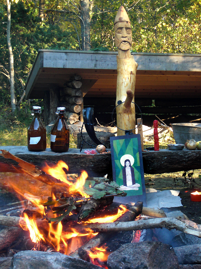 Forn Sed: Sveriges Asatrosamfund (The Swedish Asatru Society) celebrating Autumn Blót 2009. The picture is taken at an Autumn Blót held by Sveriges Asatrosamfund on 17th October 2009 at Björkö (i.e. Birch Island) in the Gothenburg archipelago, Västra Götaland, Sweden. On the bench that serves as altar there are (from left to right) two bottles of mead (honey-wine), a ceremonial drinking horn, sweets and onions as offerings, a big wooden cult image depicting the Norse fertility god Frey (Freyr), an Oathring is hanging upon Frey's phallos, two smaller cult images depicting Frejya and Thor (Þórr, painted red), a bowl, and some more onions. At the ground in front of the Frey image there is painting depicting the Norse sun goddess Sól or Sunna. In the foreground a fire is burning. In the background is a woodshed.